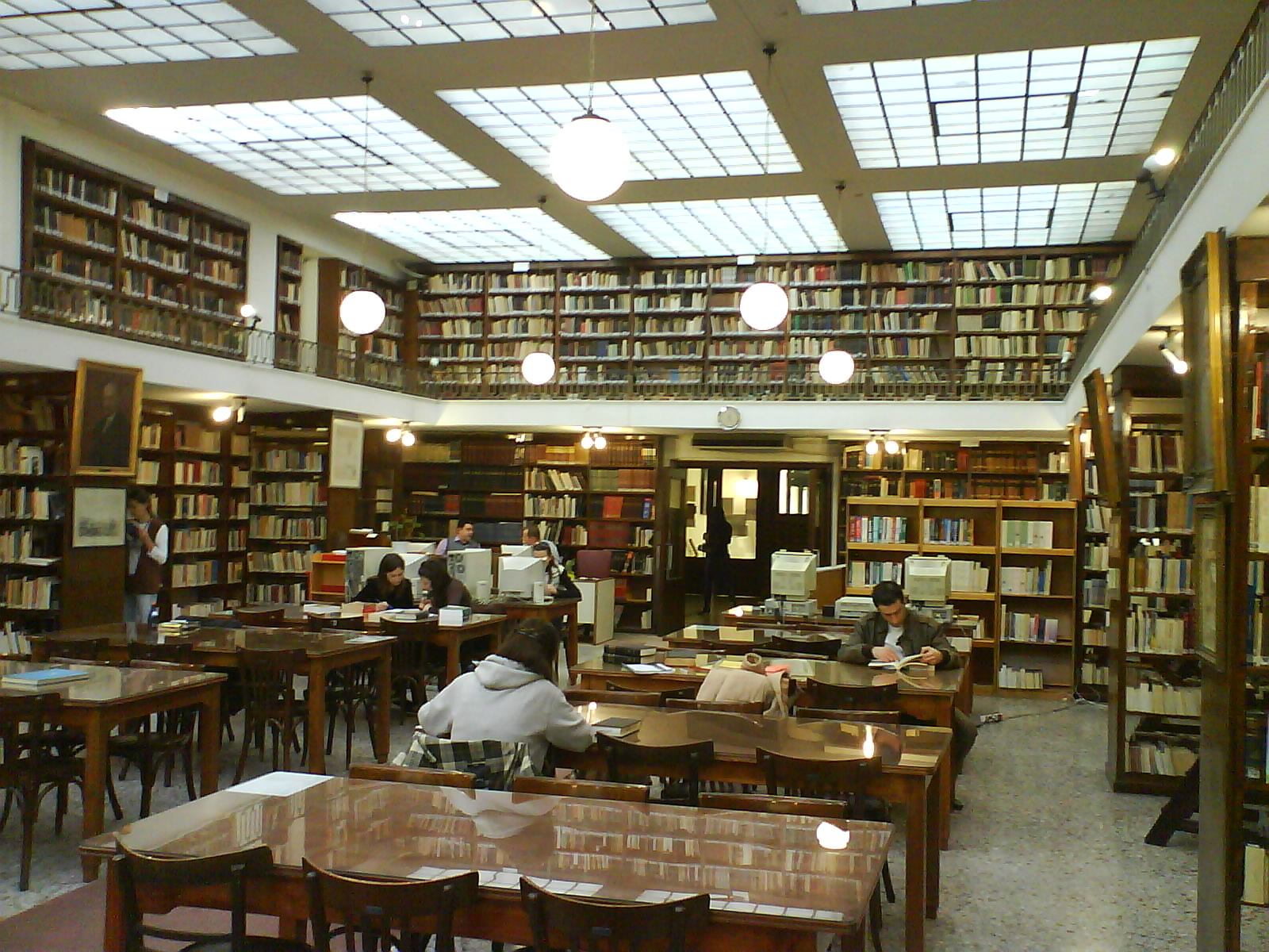 Municipal Library of Patra interior